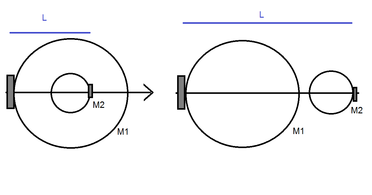 Conditions of unstability for a laser cavity with two mirrors.